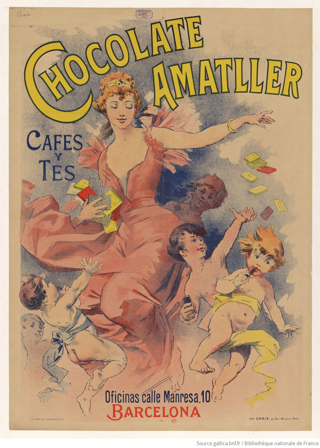 Advertisement of the Catalan chocolate factory Amatller